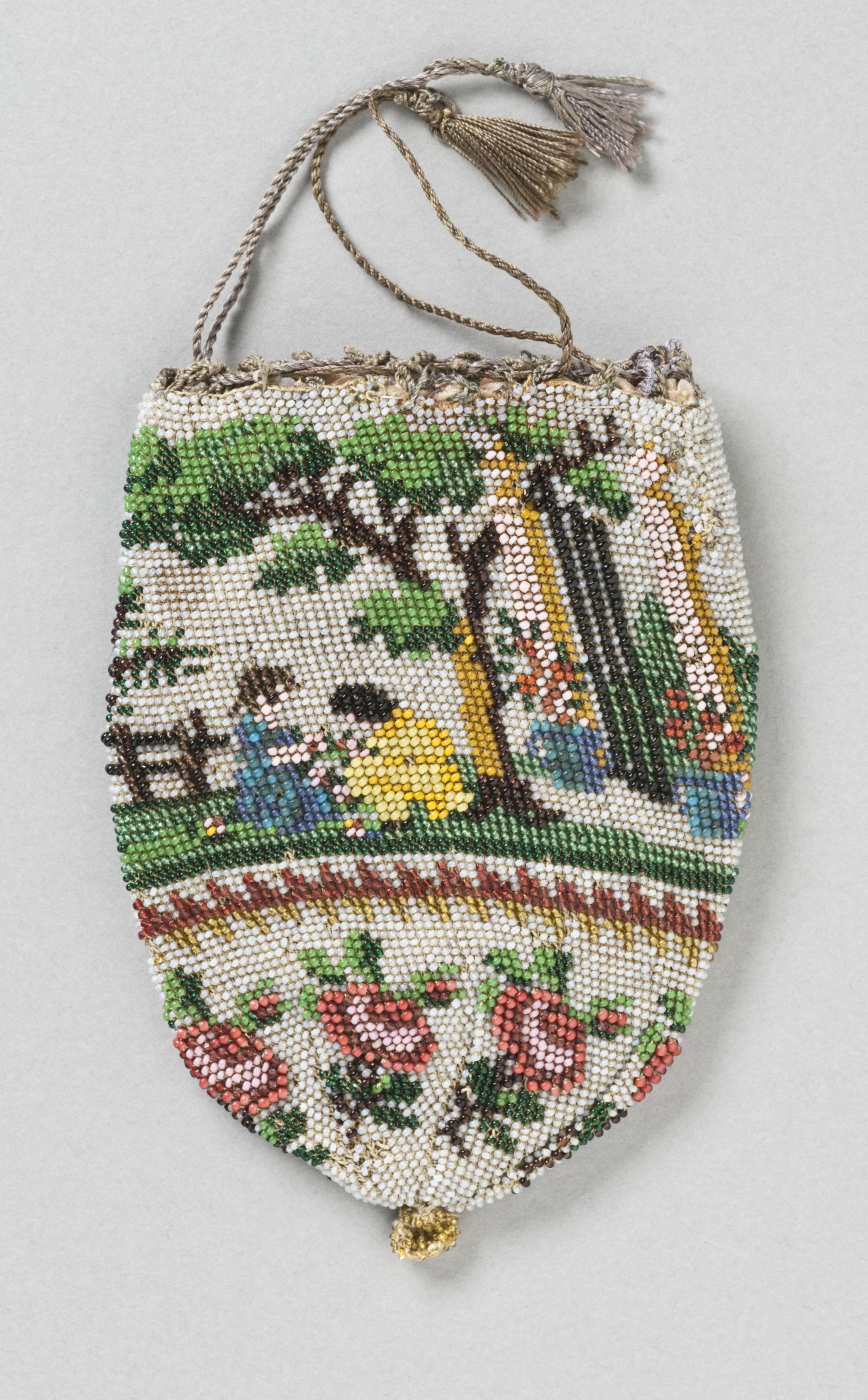 Europe, circa 1810 Costumes; Accessories Silk knit with glass beads and silk cord Overall: 4 3/8 x 3 1/8 in. (11.1125 x 7.9375 cm) Purchased with funds provided by Suzanne A. Saperstein and Michael and Ellen Michelson, with additional funding from the Costume Council, the Edgerton Foundation, Gail and Gerald Oppenheimer, Maureen H. Shapiro, Grace Tsao, and Lenore and Richard Wayne (M.2007.211.248) Costume and Textiles